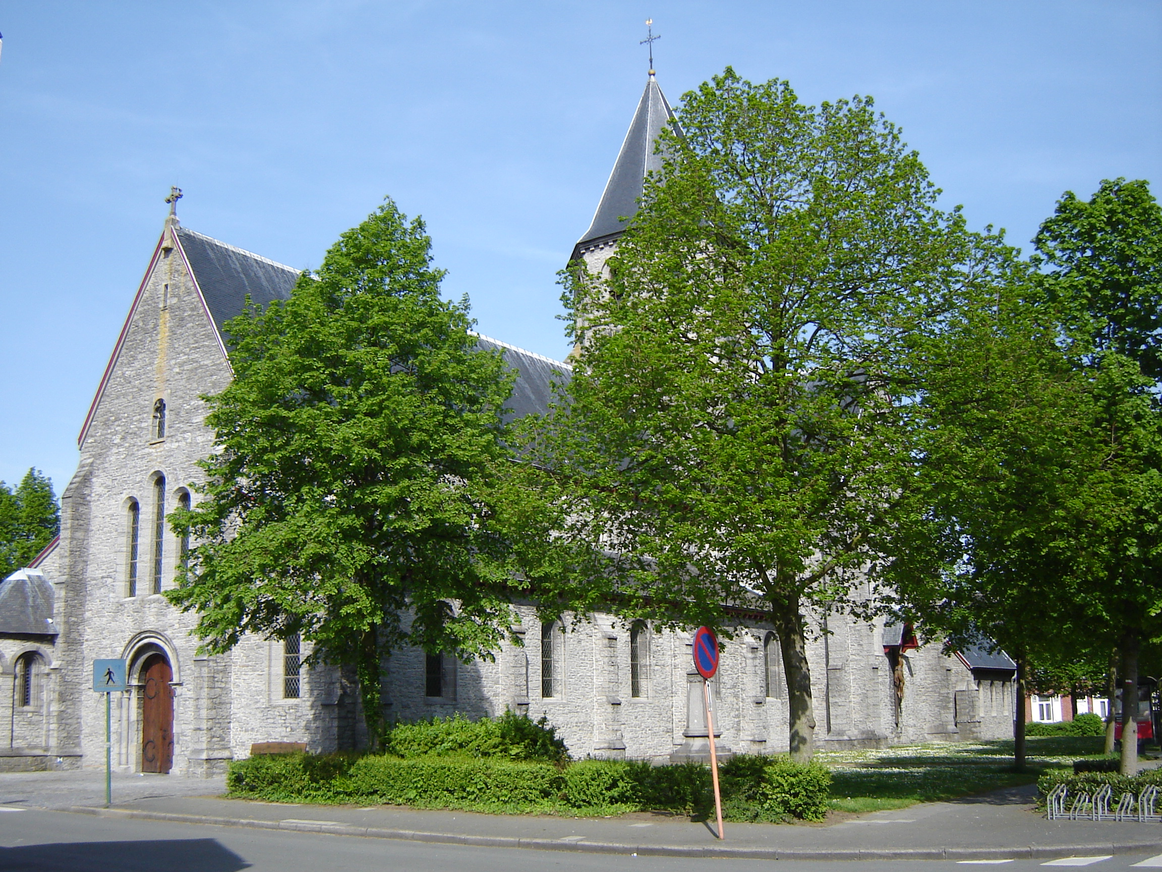 Church of Saint Anthony the Abbot in Rollegem. Rollegem, Kortrijk, West Flanders, Belgium